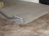 Steam Carpet cleaning demonstration also known as Hot water extraction.